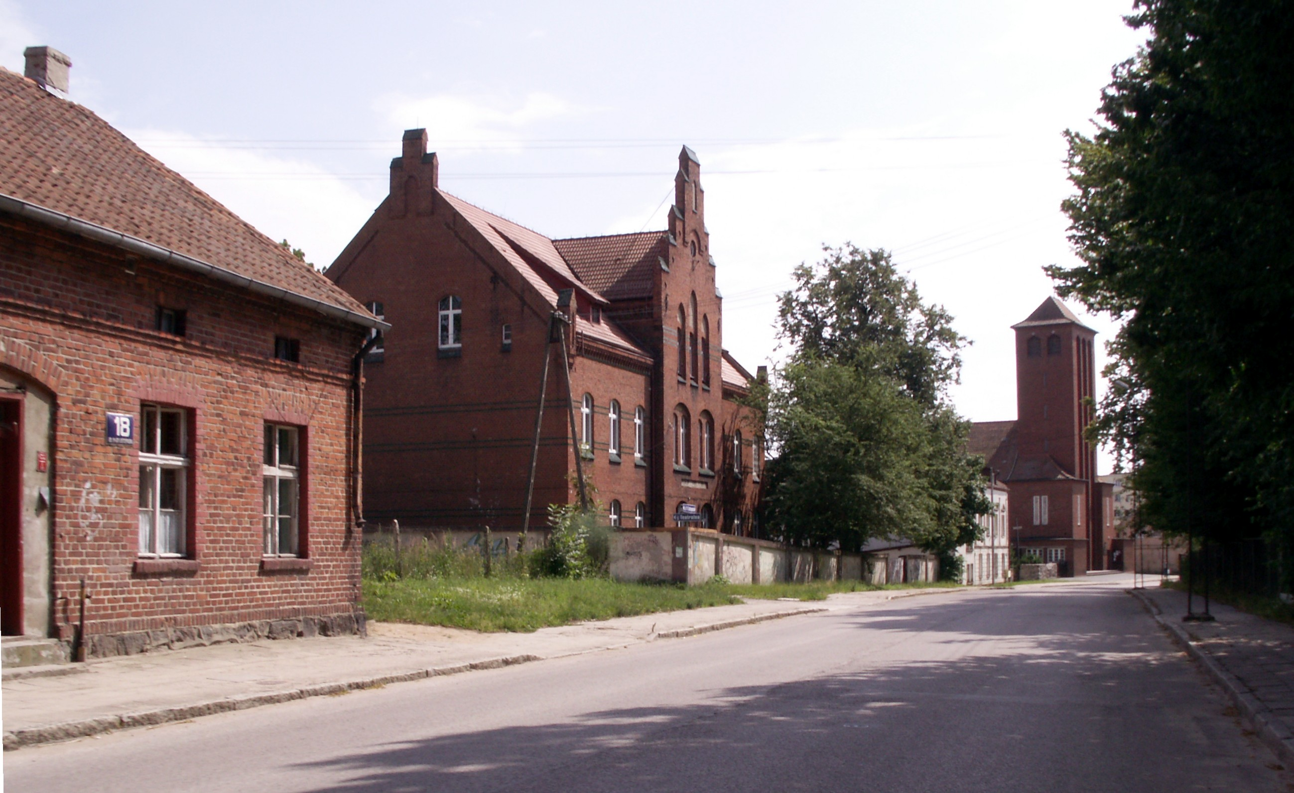 Węgorzewo